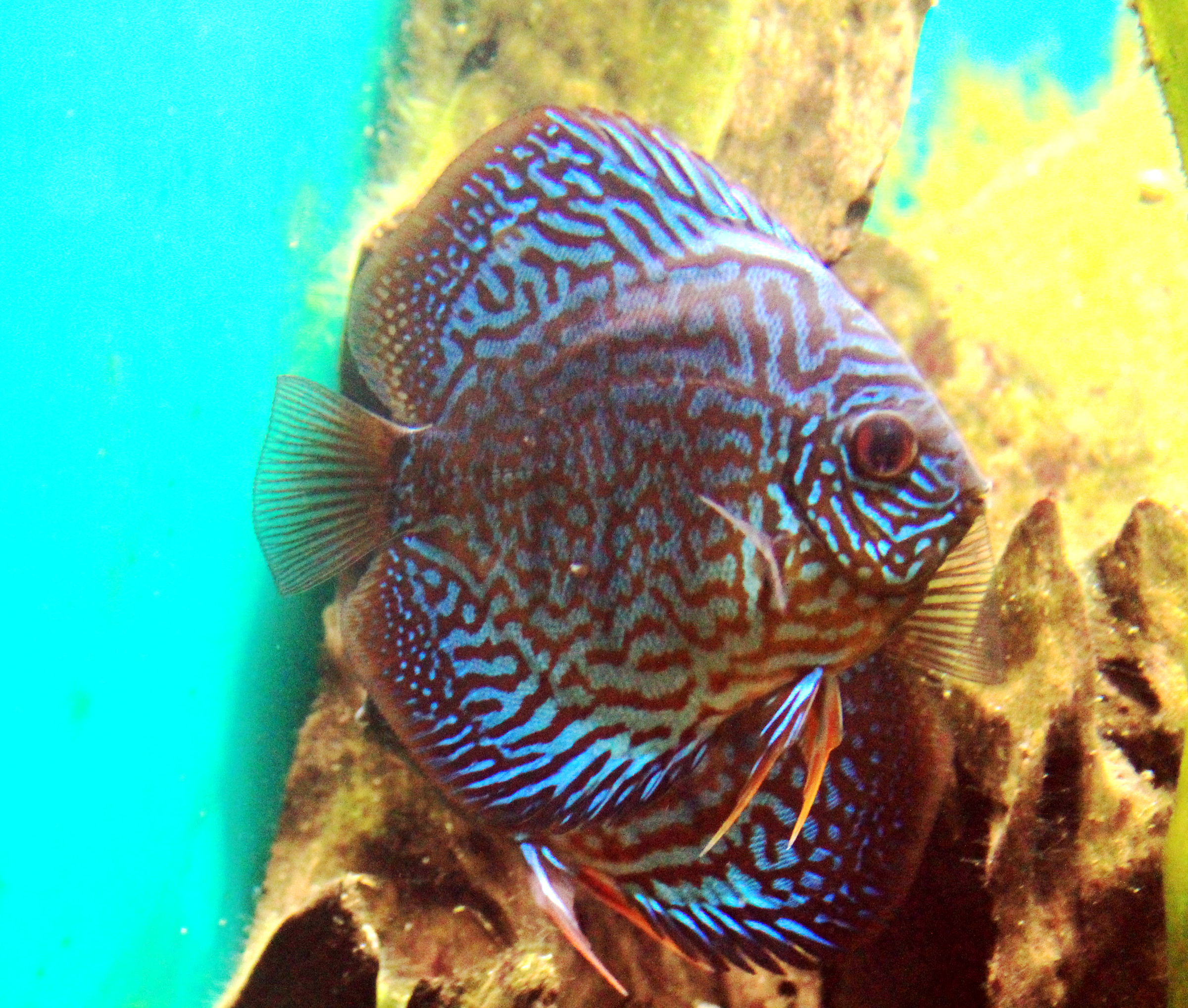 Fish Symphysodon aequifasciatus, (Symphysodon aequifasciata) in Prague sea aquarium “Sea world”, Czech Republic Česky: Ryba terčovec modrý, Symphysodon aequifasciata v pražském mořském akváriu Mořský svět v Holešovicích